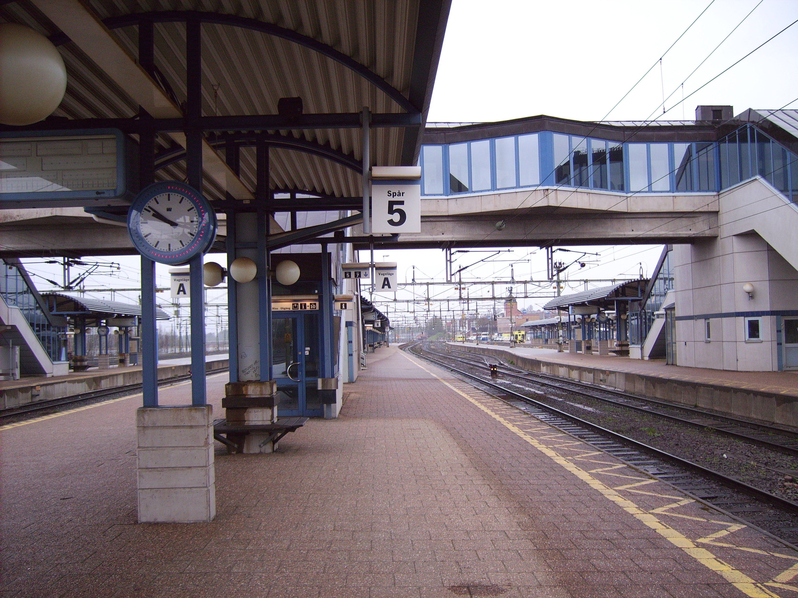 Photo by Harri Blomberg.